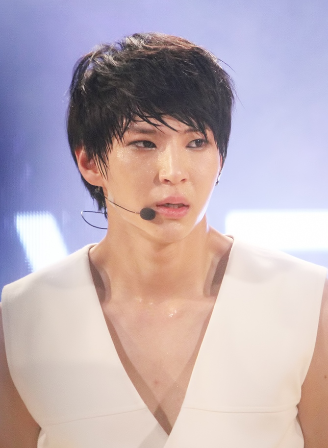 Leo Jung at Lotte World Live & Talk on June 17, 2013.